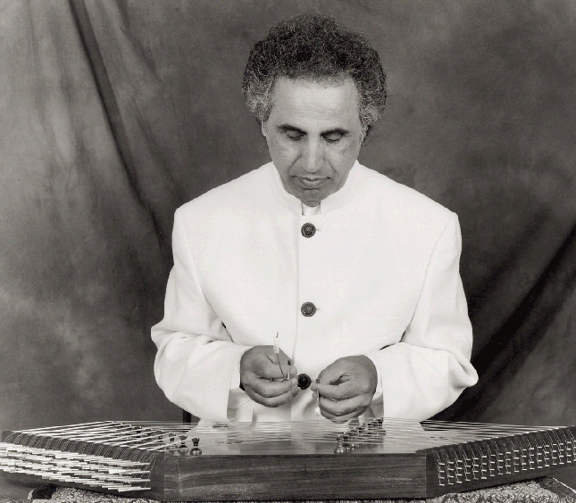 Manoochehr Sadeghi. This is a great picture to see how the Mezrabs are held and what position the hands and body need to be in when playing the santur.